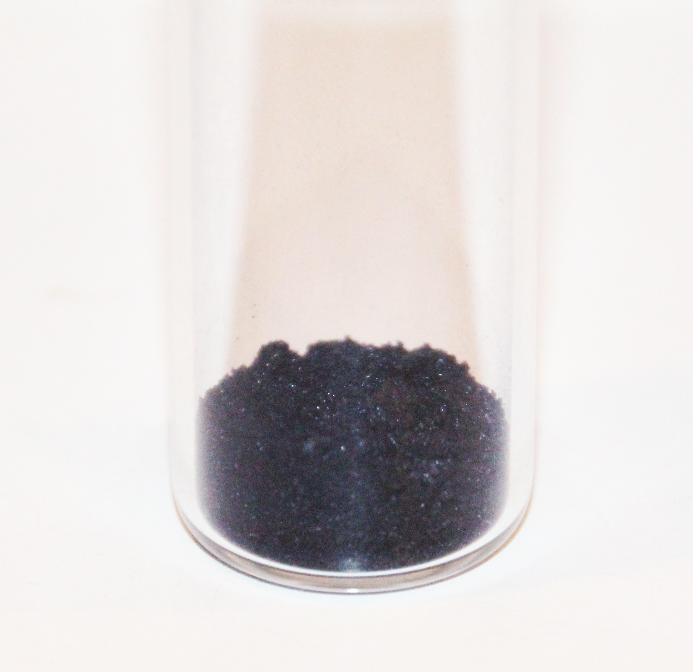 Sample of Molybdenum Blue, a polyoxometalate with the formula Na15[MoVI126MoV28O462H14(H2O)70]0.5[MoVI124MoV28O457H14(H2O)68]0.5